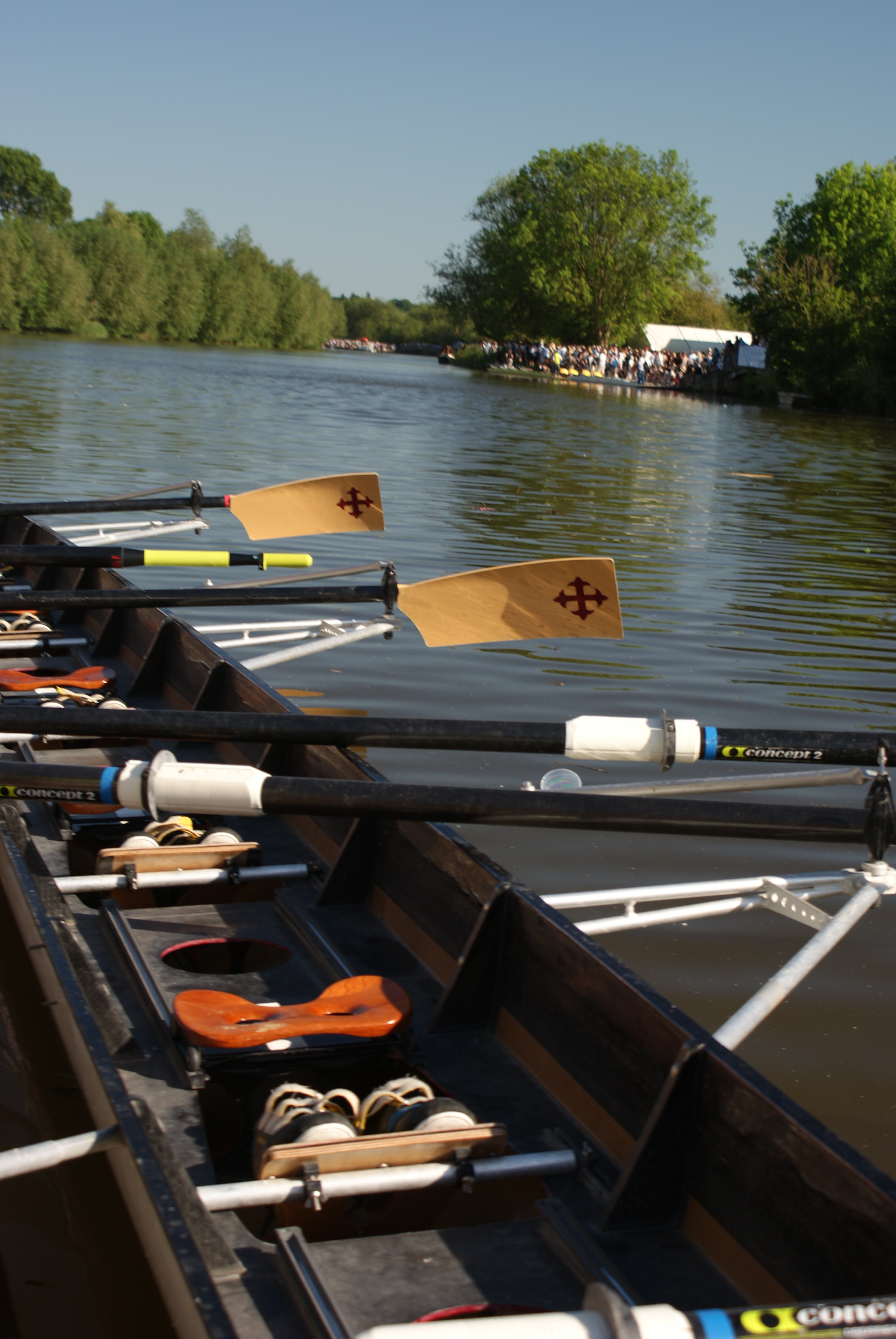 SEHBC blades